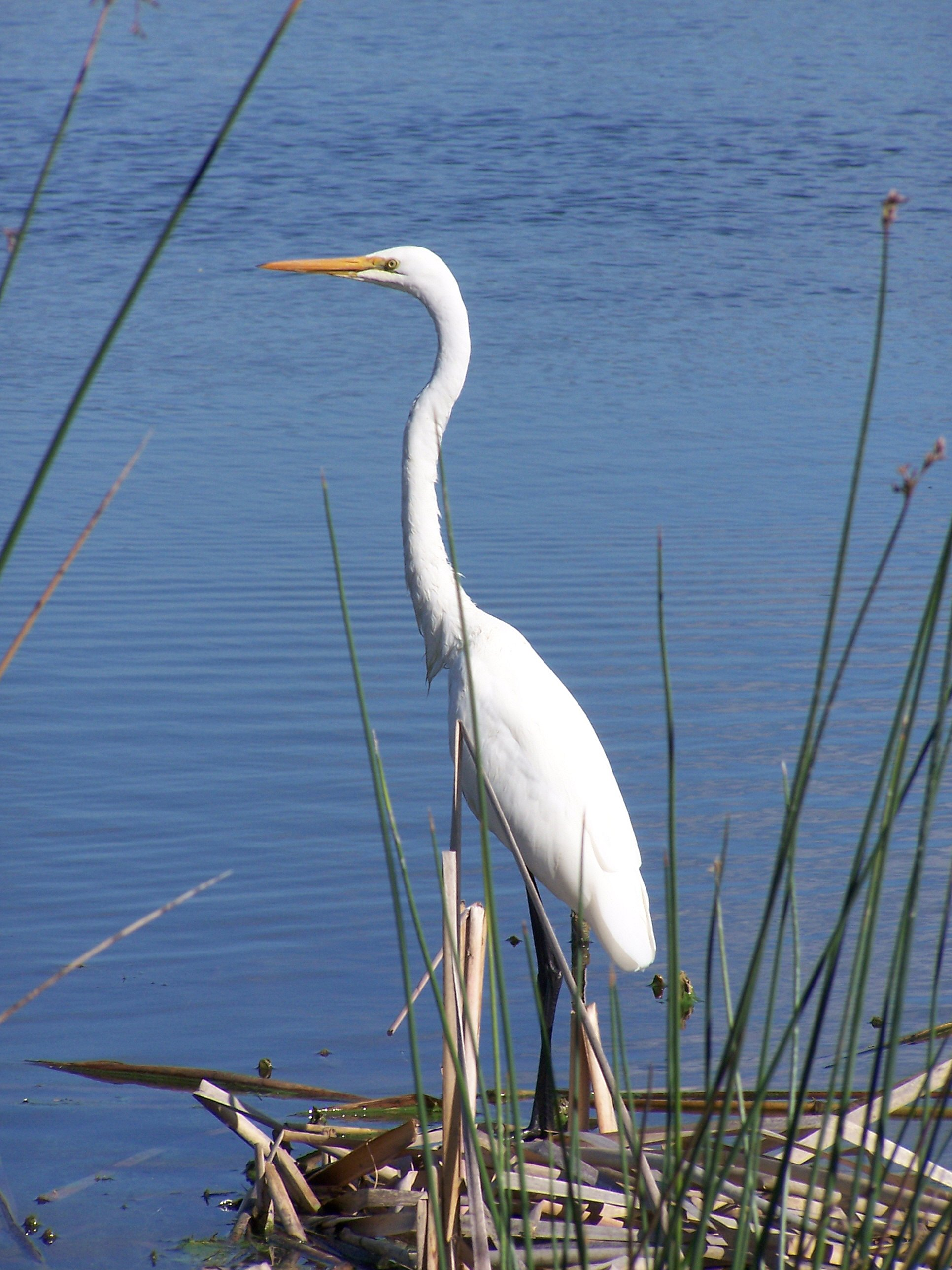 Heron at Herdsman Lake Western Australia, Ardea modesta